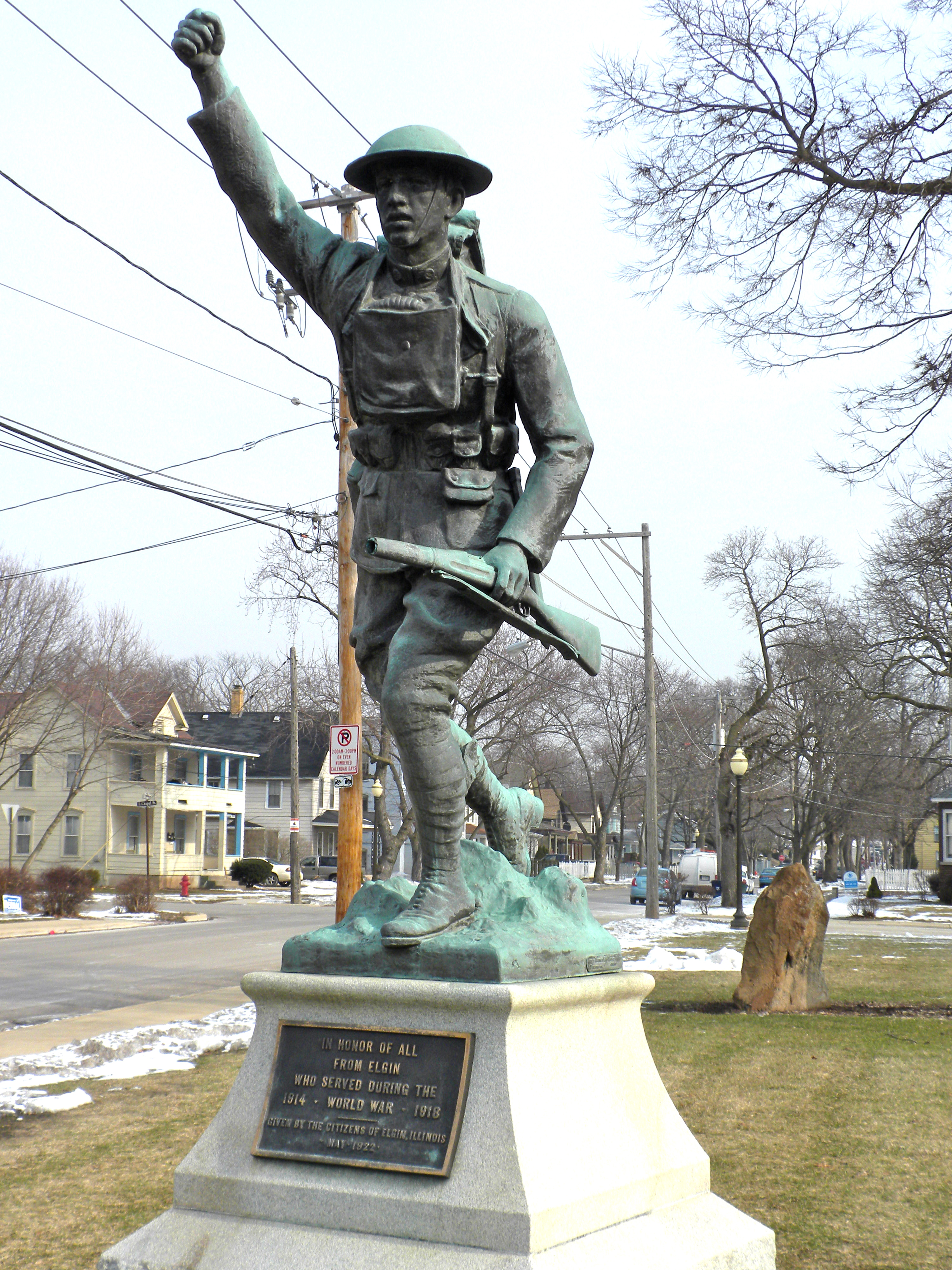 WW I memorial in Davidson Park in Elgin, Illinois, on the corner of Villa and Prairie. This is part of the Elgin Historic District on the NRHP. Elgin Historic District was listed on May 9, 1983 Roughly bounded by Villa, Center, Park, N. Liberty, and S. Channing Sts. This park is on the southwest edge of the district